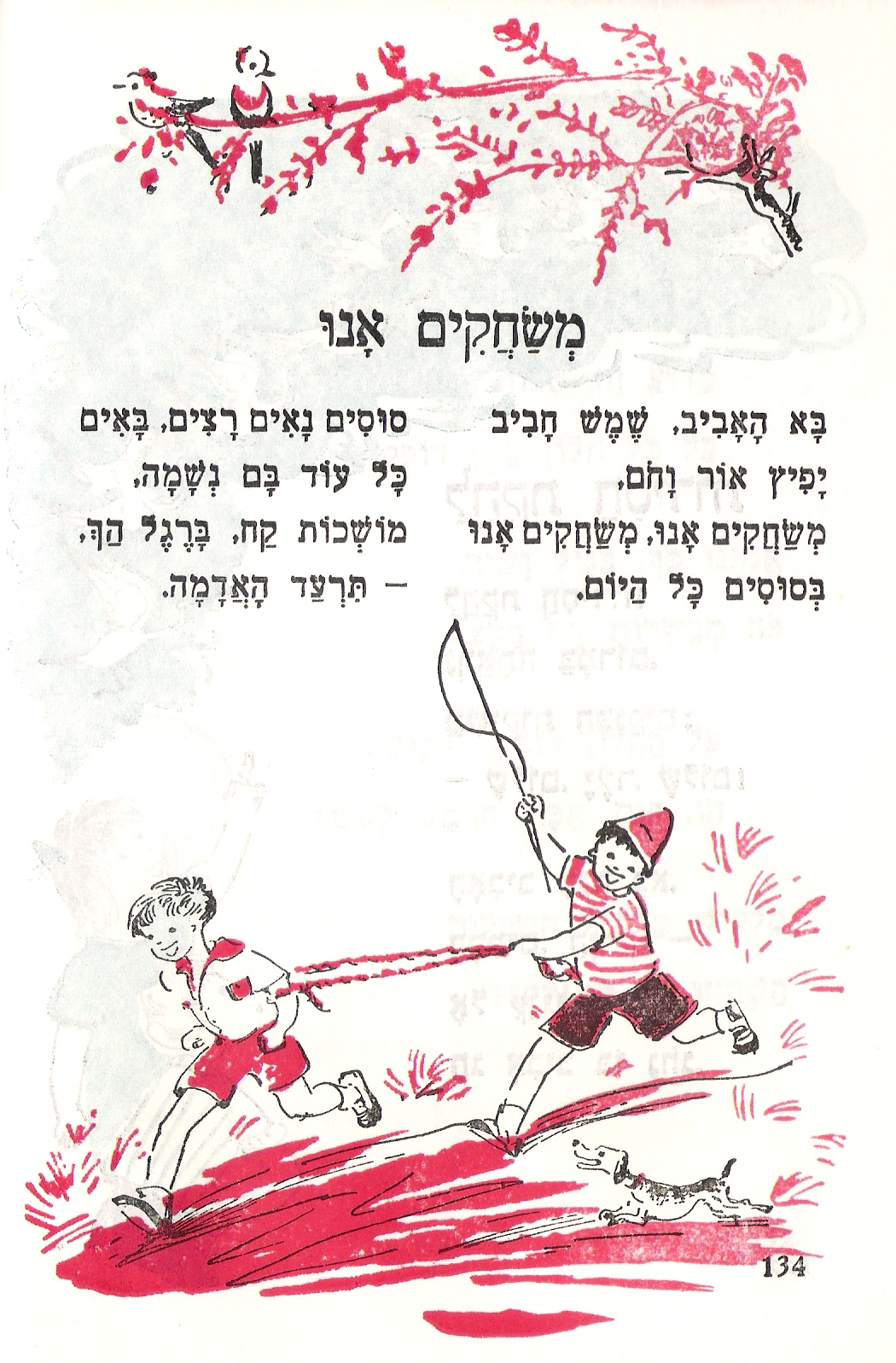 My friend - a textbook for reading and writing for the first year